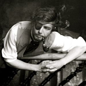 Crop of Thom Tuck from ThreeWeeks photo-shoot for Aeneas Faversham Forever.